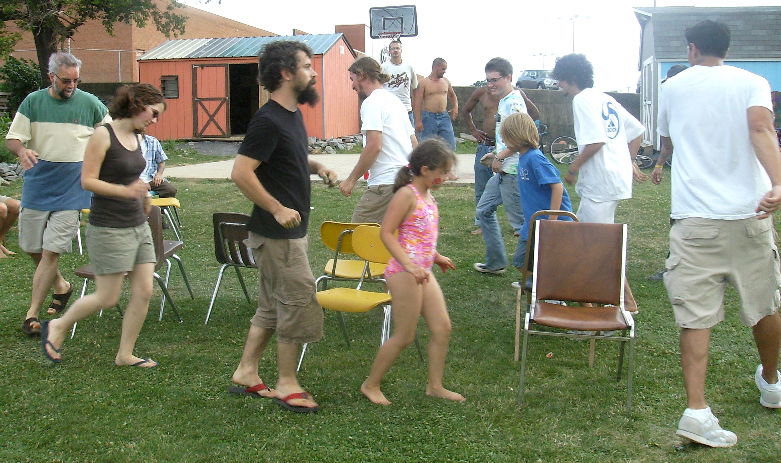 Playing musical chairs at the Our Community Place Lawn Jam in Harrisonburg, Virginia on June 28, 2008.